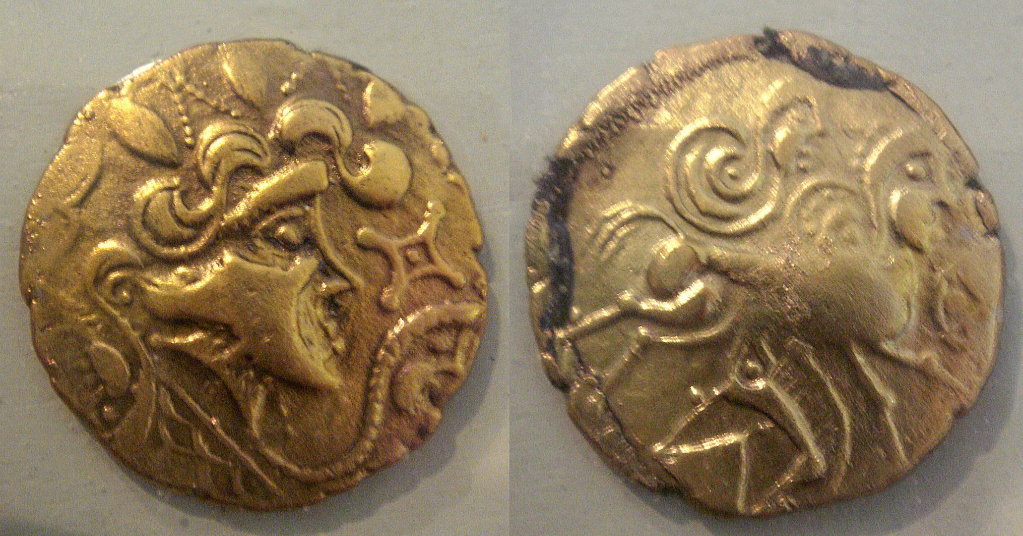 Coins_of_the_Osismii.